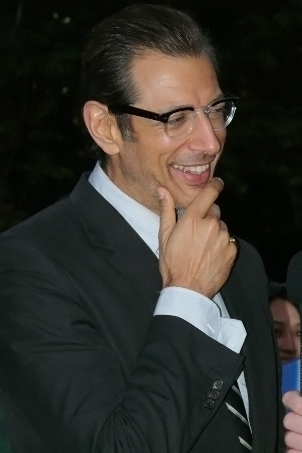 Actor Jeff Goldblum at the Tiff 08 Premiere of Adam Resurrected Check out More great pics and Video at